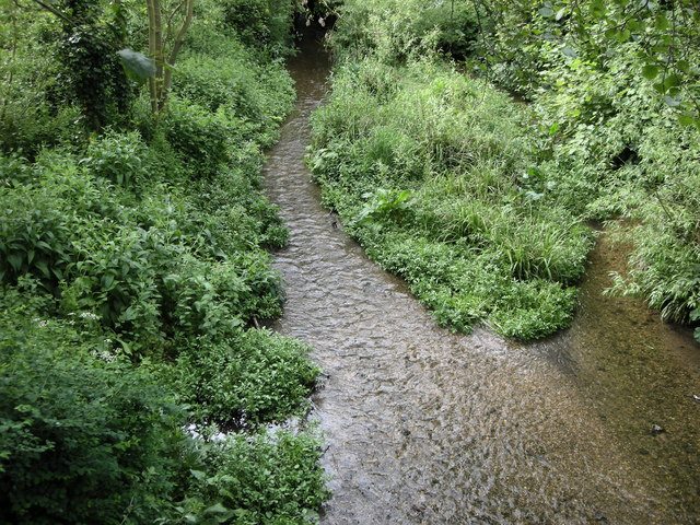 Berkhamsted-River Bulbourne The river runs along side the canal at this point.